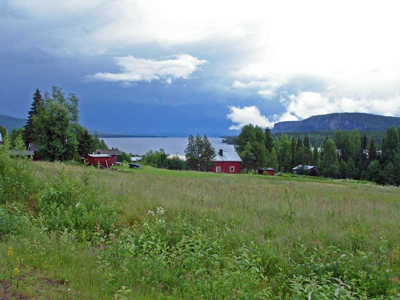 View of lake Storvindeln in Swedish Lapland from the north, at Hemfjäll.